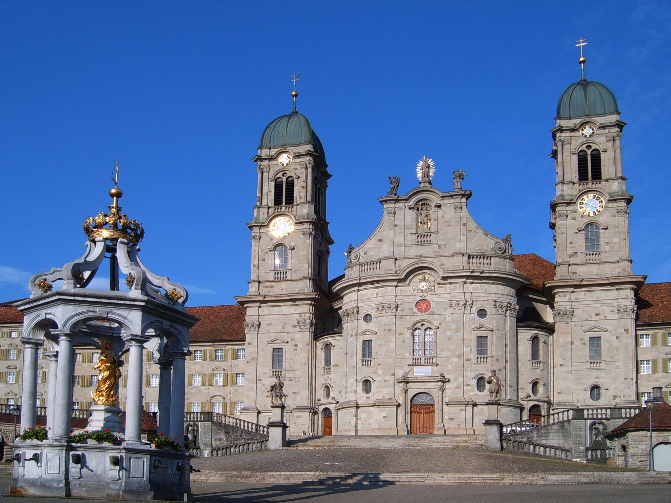 Einsiedeln Abbey with Lady Fountain, Canton of Schwyz (Switzerland)